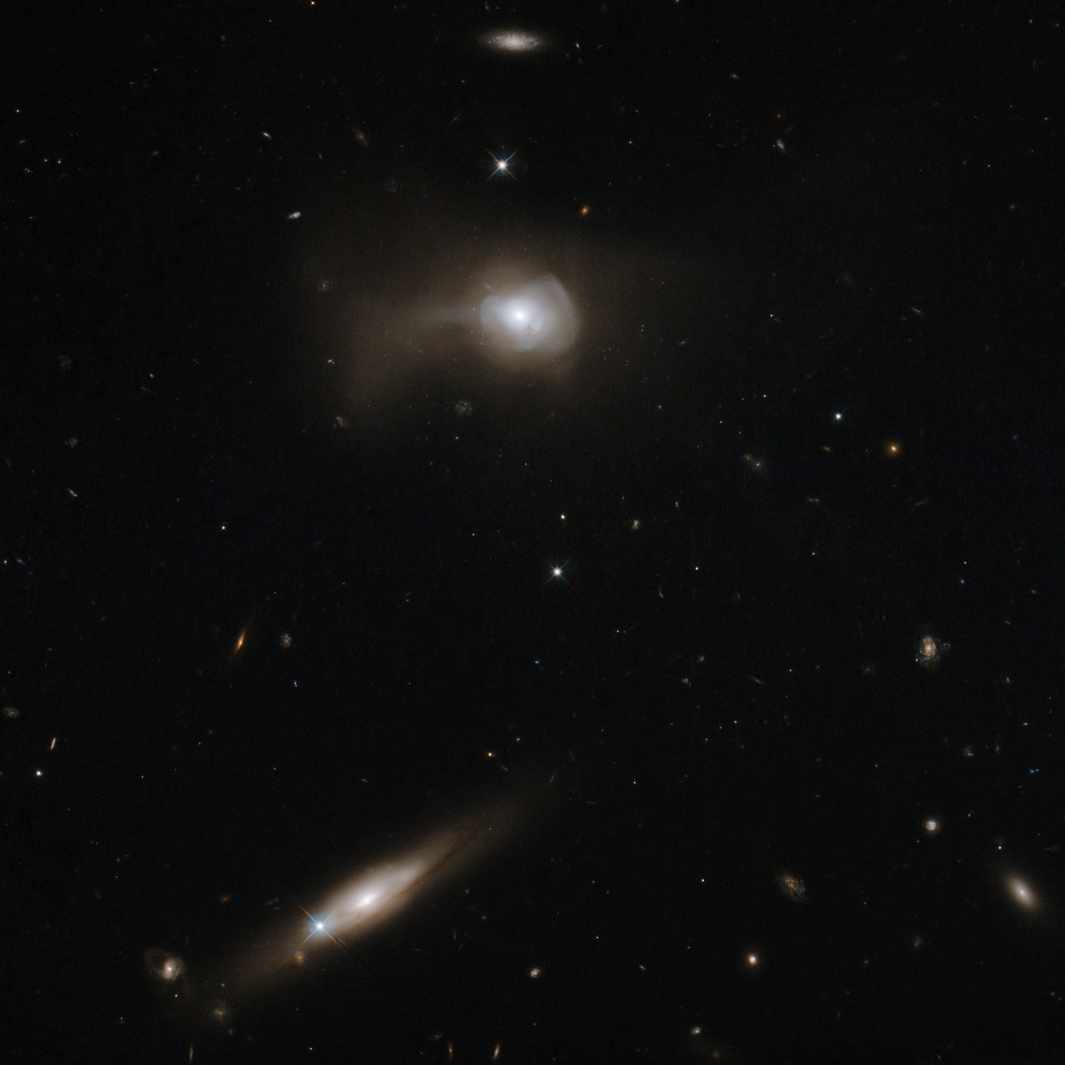 Many of the Universe’s galaxies are like our own, displaying beautiful spiral arms wrapping around a bright nucleus. Examples in this stunning image, taken with the Wide Field Camera 3 on the NASA/ESA Hubble Space Telescope, include the tilted galaxy at the bottom of the frame, shining behind a Milky Way star, and the small spiral at the top centre. Other galaxies are even odder in shape. Markarian 779, the galaxy at the top of this image, has a distorted appearance because it is likely the product of a recent galactic merger between two spirals. This collision destroyed the spiral arms of the galaxies and scattered much of their gas and dust, transforming them into a single peculiar galaxy with a unique shape. This galaxy is part of the Markarian catalogue, a database of over 1500 galaxies named after B. E. Markarian, the Armenian astronomer who studied them in the 1960s. He surveyed the sky for bright objects with unusually strong emission in the ultraviolet. Ultraviolet radiation can come from a range of sources, so the Markarian catalogue is quite diverse. An excess of ultraviolet emissions can be the result of the nucleus of an “active” galaxy, powered by a supermassive black hole at its centre. It can also be due to events of intense star formation, called starbursts, possibly triggered by galactic collisions. Markarian galaxies are, therefore, often the subject of studies aimed at understanding active galaxies, starburst activity, and galaxy interactions and mergers.